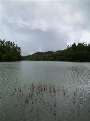 Berijam Lake on a cloudy day